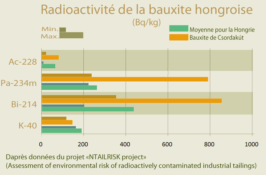 Graph comparing the natural radioactivity (gamma radioactivity, in Bq x kg-1) extracted from bauxite in Hungary (average radioactivity of the ore, and that, naturally radioactive ore from the Hungarian Csordakút). During the process of extracting alumina, these radionuclides are concentrated in the waste metal aluminum companies called "red mud" which can be slightly more radioactive than the ore iself; These data come from the international INTAILRISK project (Assessment of Environmental Risk of radioactively contaminé industrial tailings), financed by Europe, which also looked at the radioactivity of coal ash and slag (also more or less according to their radioactive sources and which were also stored in big open tanks as sludge ) These measures have focused on four radionuclides: Ac-228 (natural isotope of the actinium, which is a product of the decay chain of uranium 235. It is highly radioactive; 150 times greater than that of radium.) Pa-234m (an isotope of the Protactinium), Bi-214 (Bismuth 214, which is radioactive but also toxic) and K-40 (Potassium 40, natural isotope of potassium, highly bioavailable via certain plants. Its half-life is 1.248 billion years)